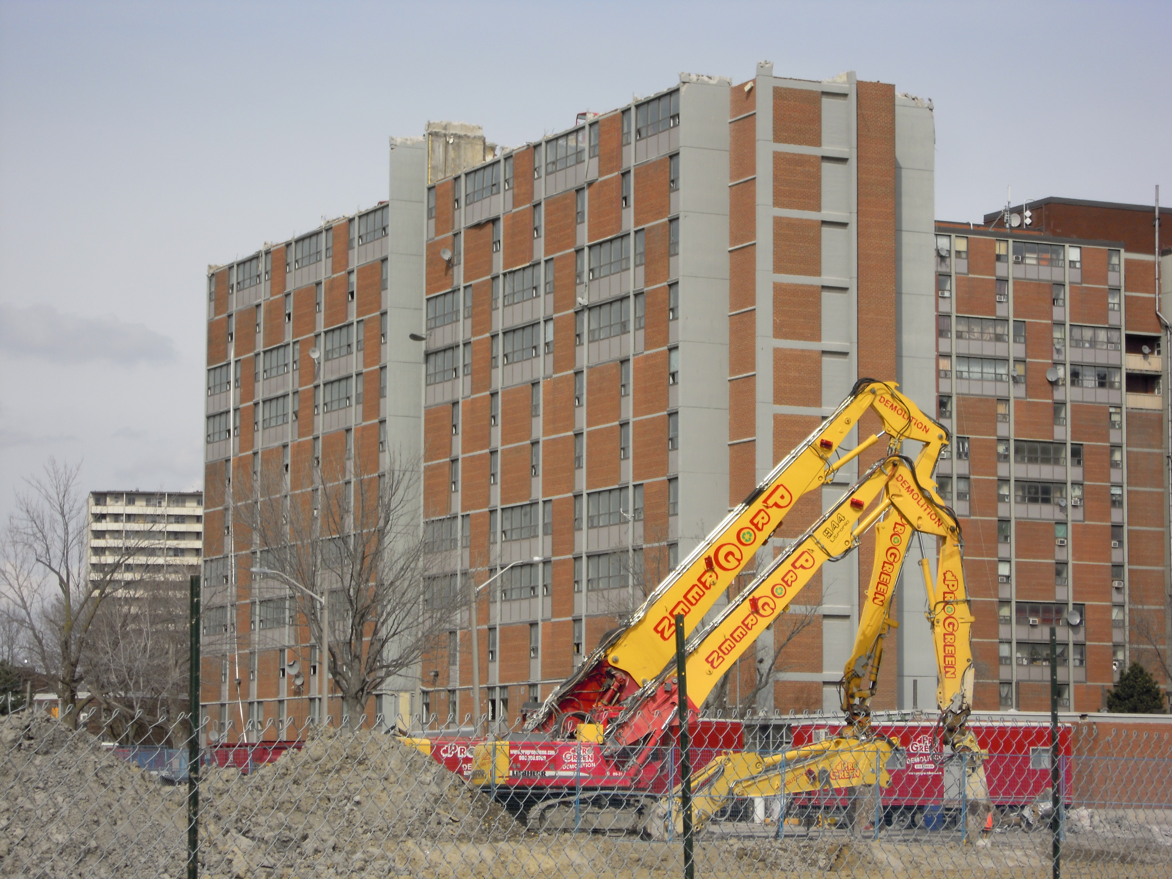 As part of the redevelopment of Regent Park from a social housing development to mixed-income neighbourhood, four of the five apartment towers designed by Peter Dickinson are being demolished (one will be preserved for historical reasons). Constructed in 1958, the collection of Regent Park towers won a Silver Medal by the Massey Medals for Architecture in 1961. This is an image of the second tower being demolished. Toronto, Ontario, Canada.